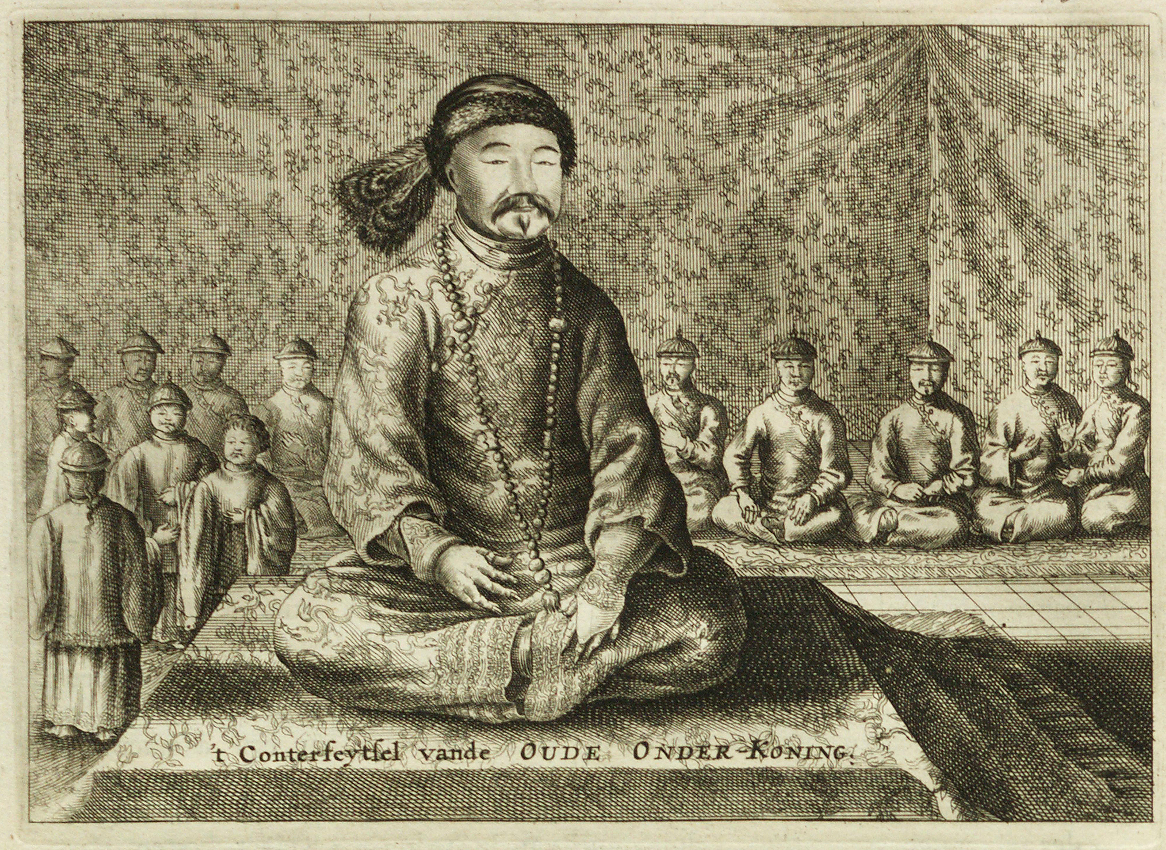 Shang Kexi, the "Old Viceroy" of Guangdong. Illustration from Johan Nieuhof (1665), Het Gezandtschap der Neêrlandtsche Oost-Indische Compagnie.